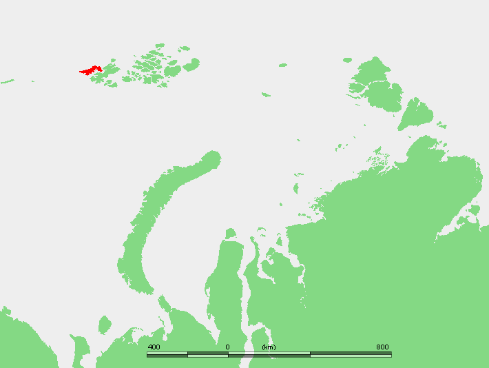 Nordensjelda Islands